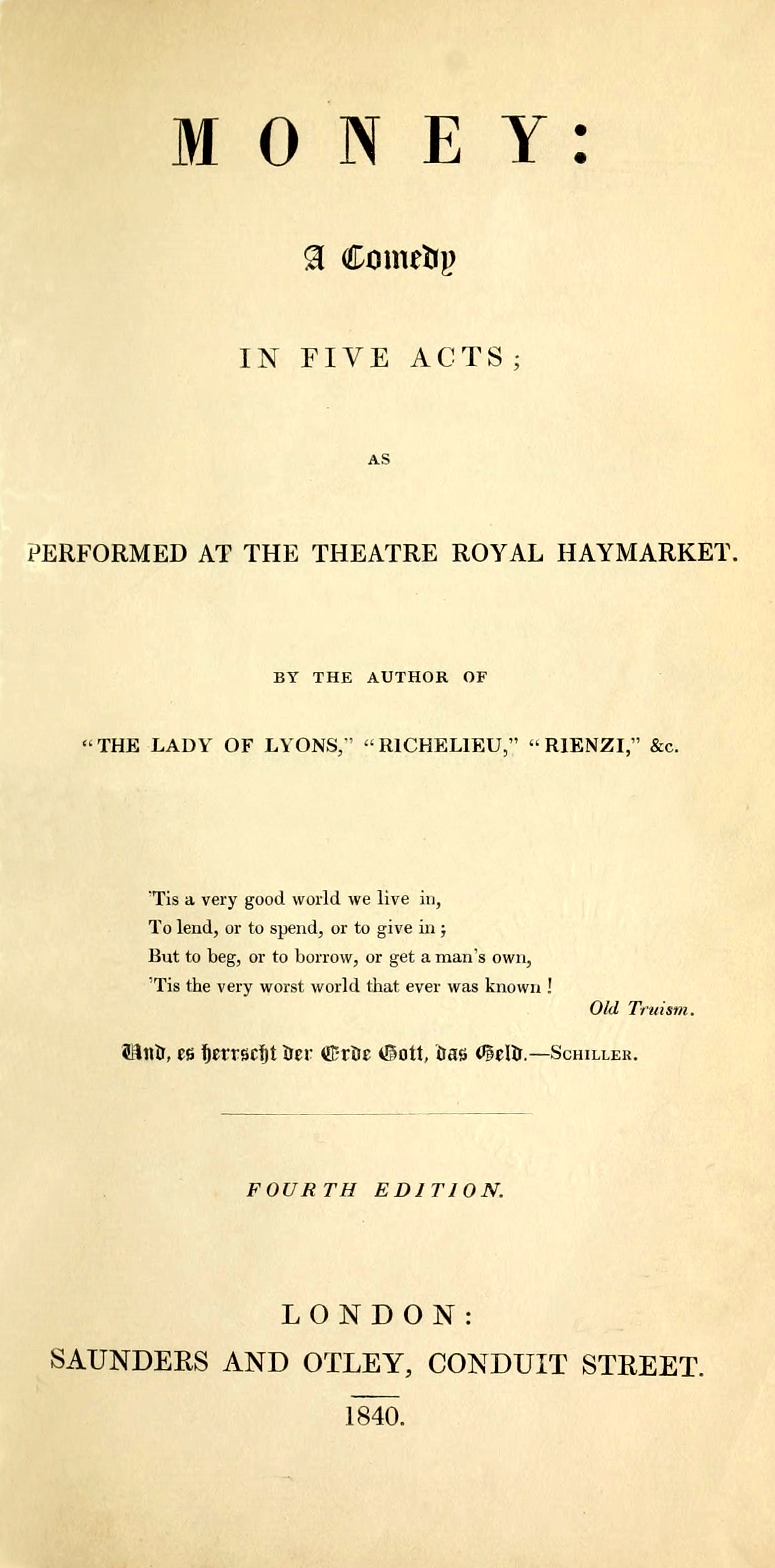 Money by Lytton, 4th edition title page